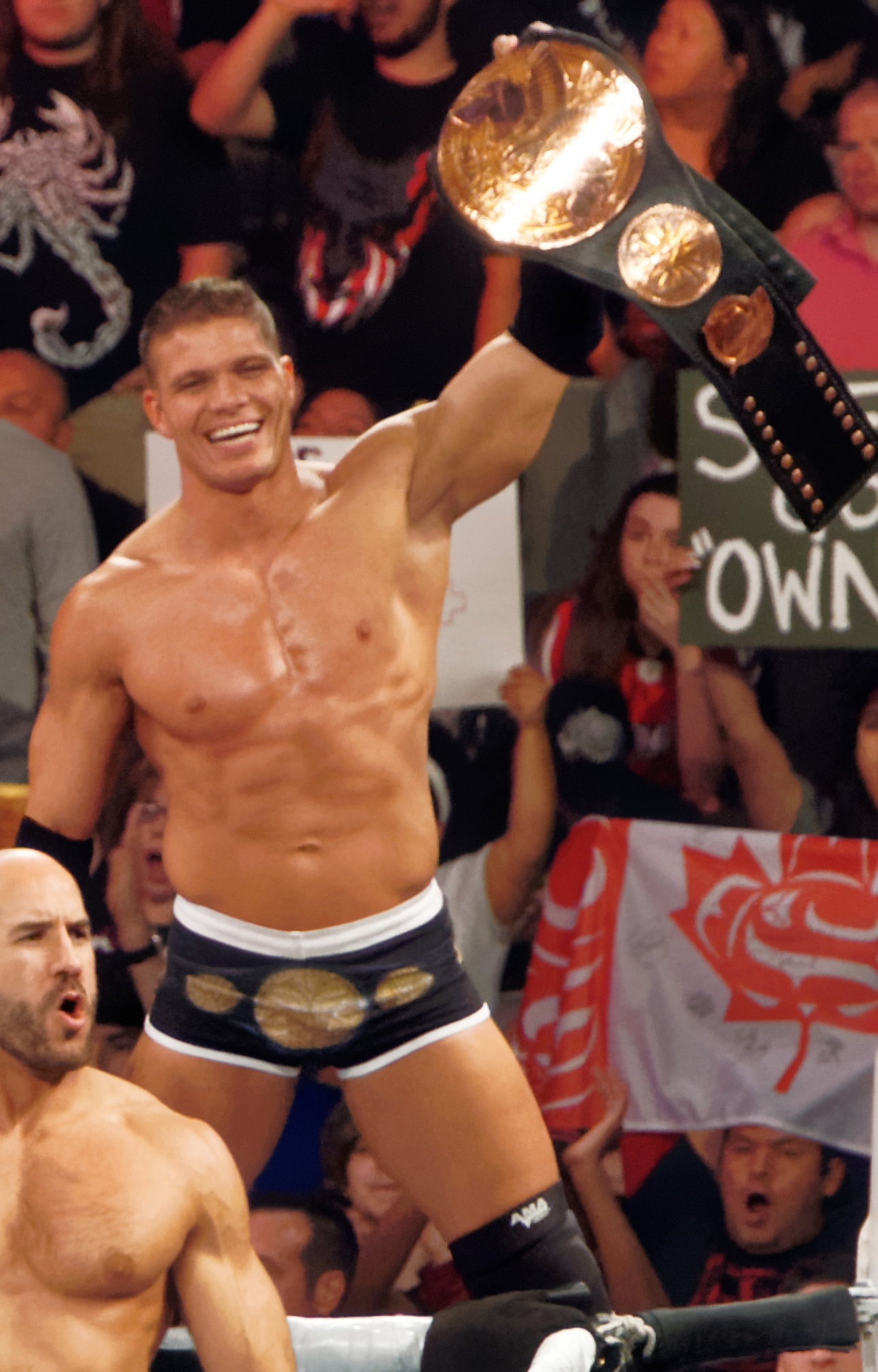 Tyson Kidd as the WWE Tag Team Champion at the WWE Raw television taping on March 30, 2015.